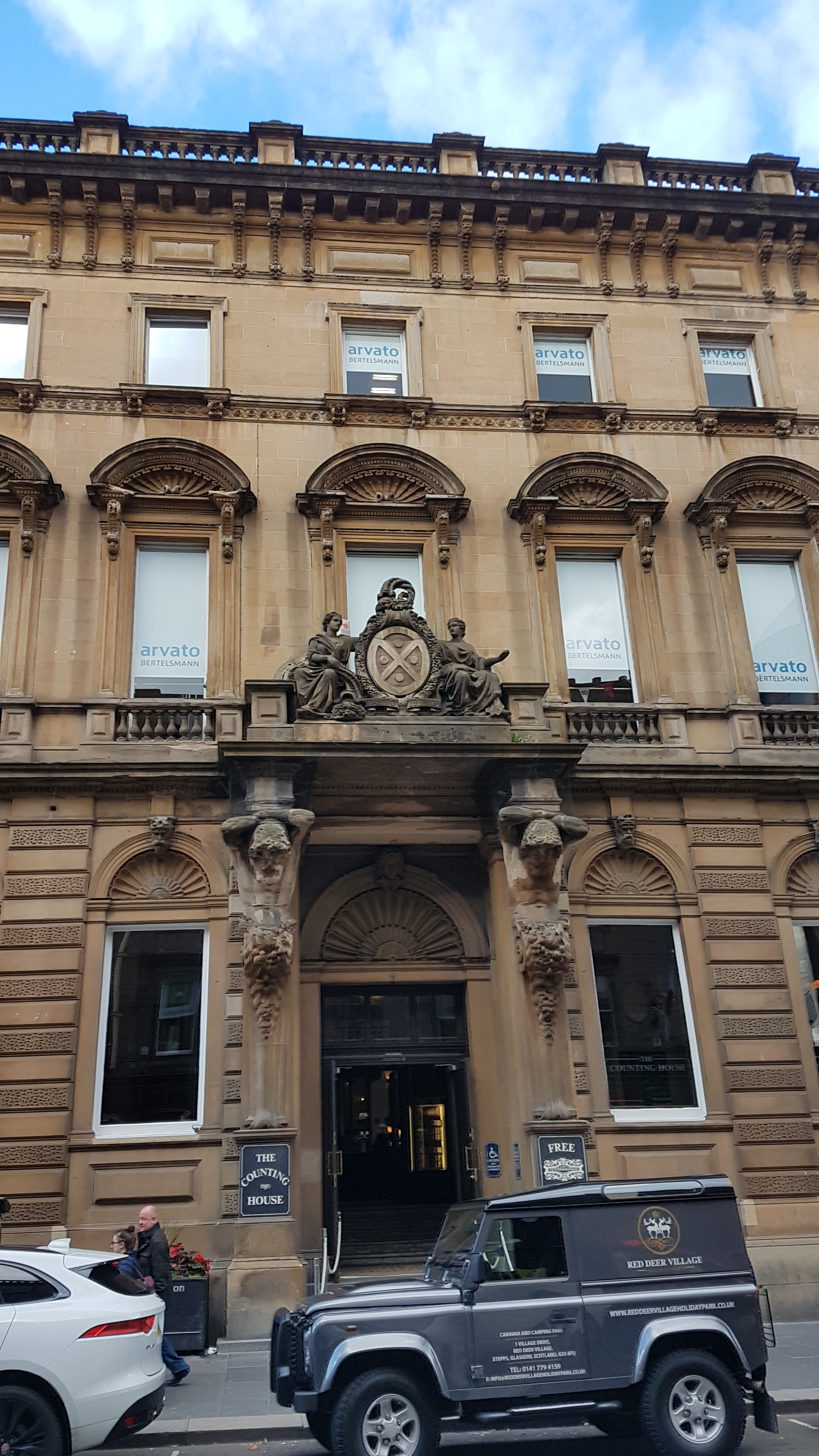 2 St Vincent Place, Bank Of Scotland Wikidata has entry Q17567757 with data related to this item.